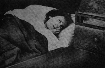 Karolina Olsson, who was in coma between 1876 and 1908, one of the longest periods ever.